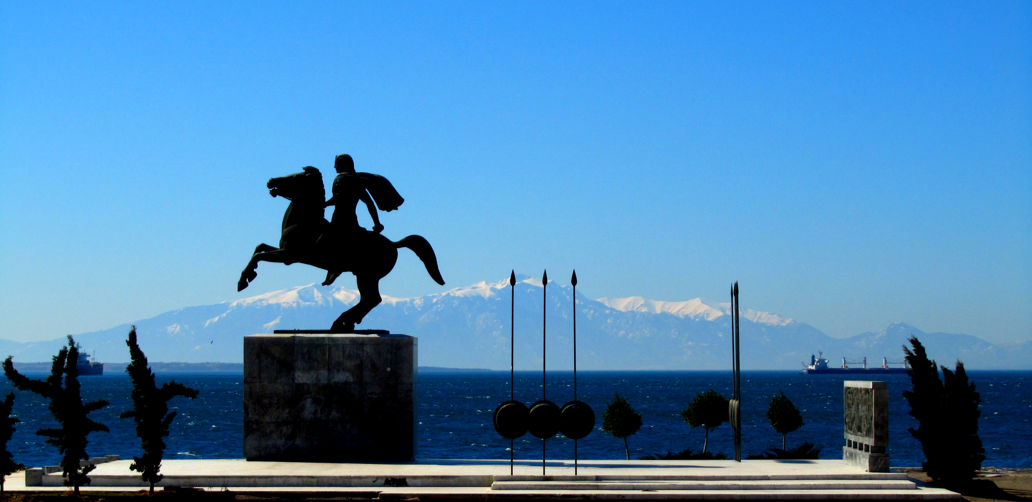 THESSALONIKI-Alexander the Great overlooking the Mount Olympus